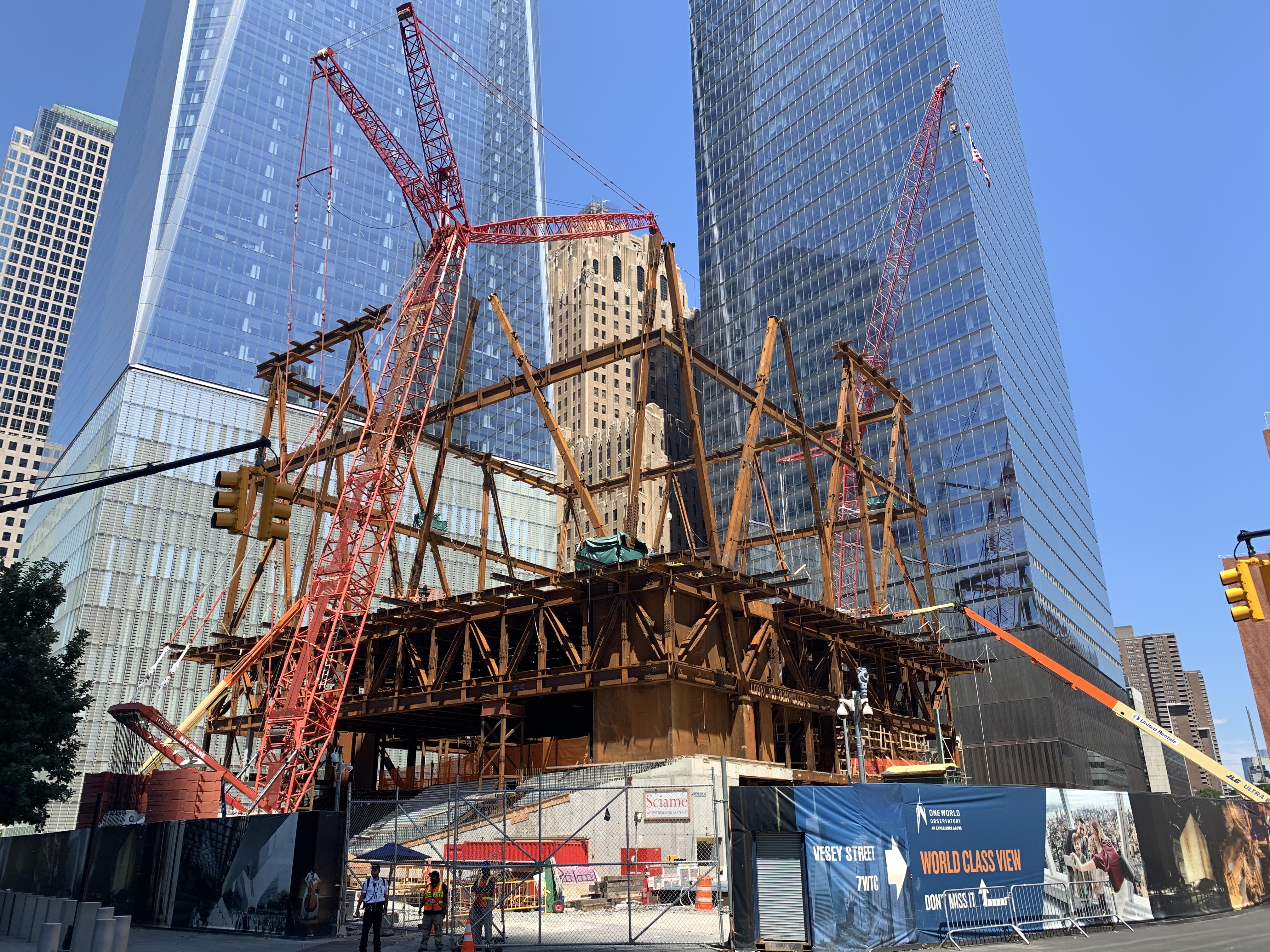 World Trade Center performing arts center on August 3, 2020